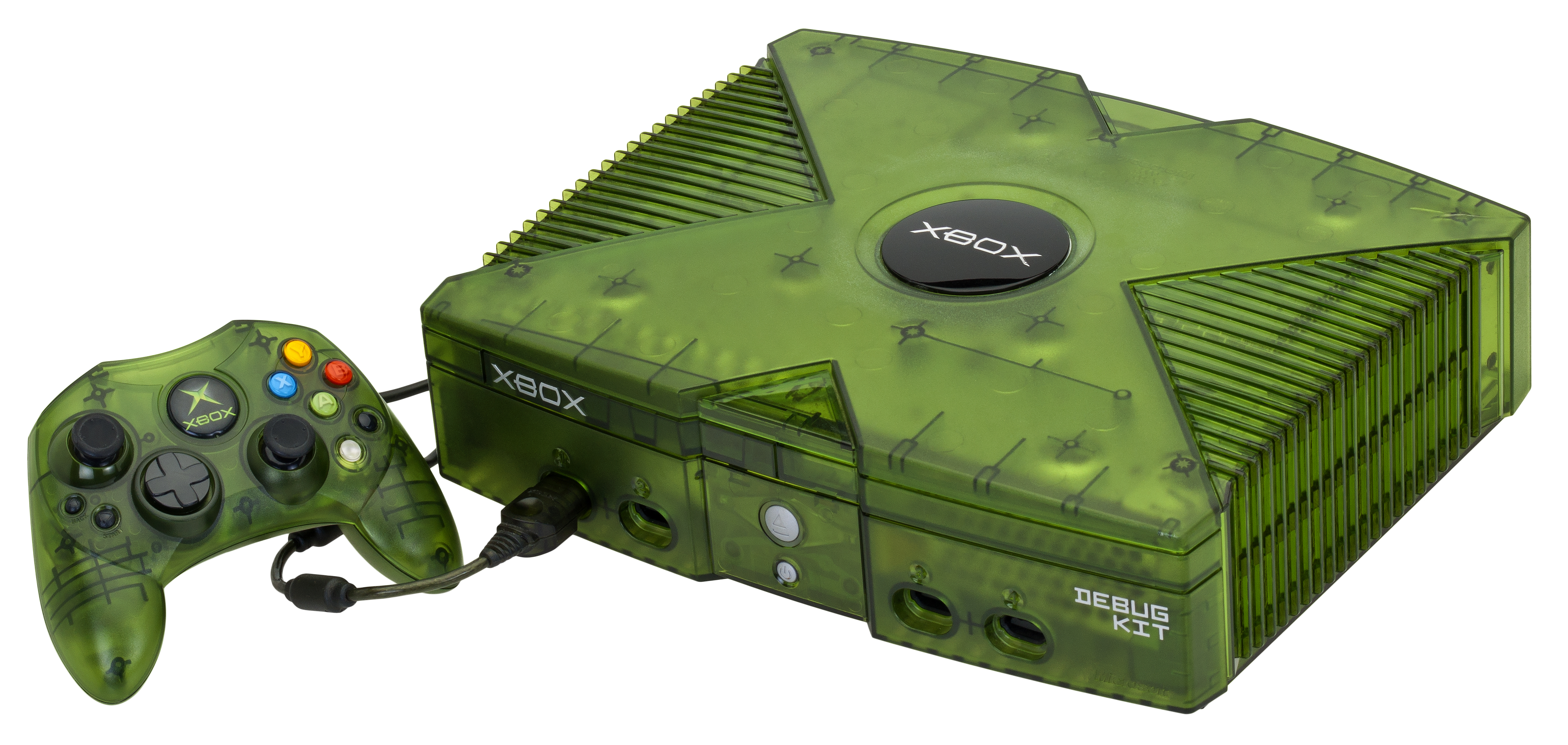 An original Xbox debugging console, intended for developers.